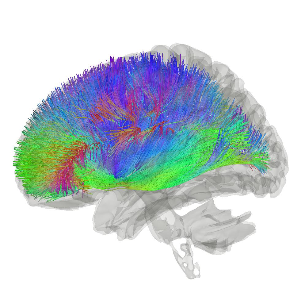 Tractography showing corticostriatal pathway on a population-averaged template